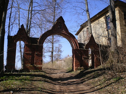 The arch of the Cheremenec monastery